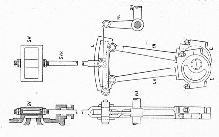 Stephenson link valve gear. This is the launch type link. SVSlide valveSVRSlide valve rodLLinkRLReversing leverSHStarting handleWSWeight shaftEEccentricEREccentric rod